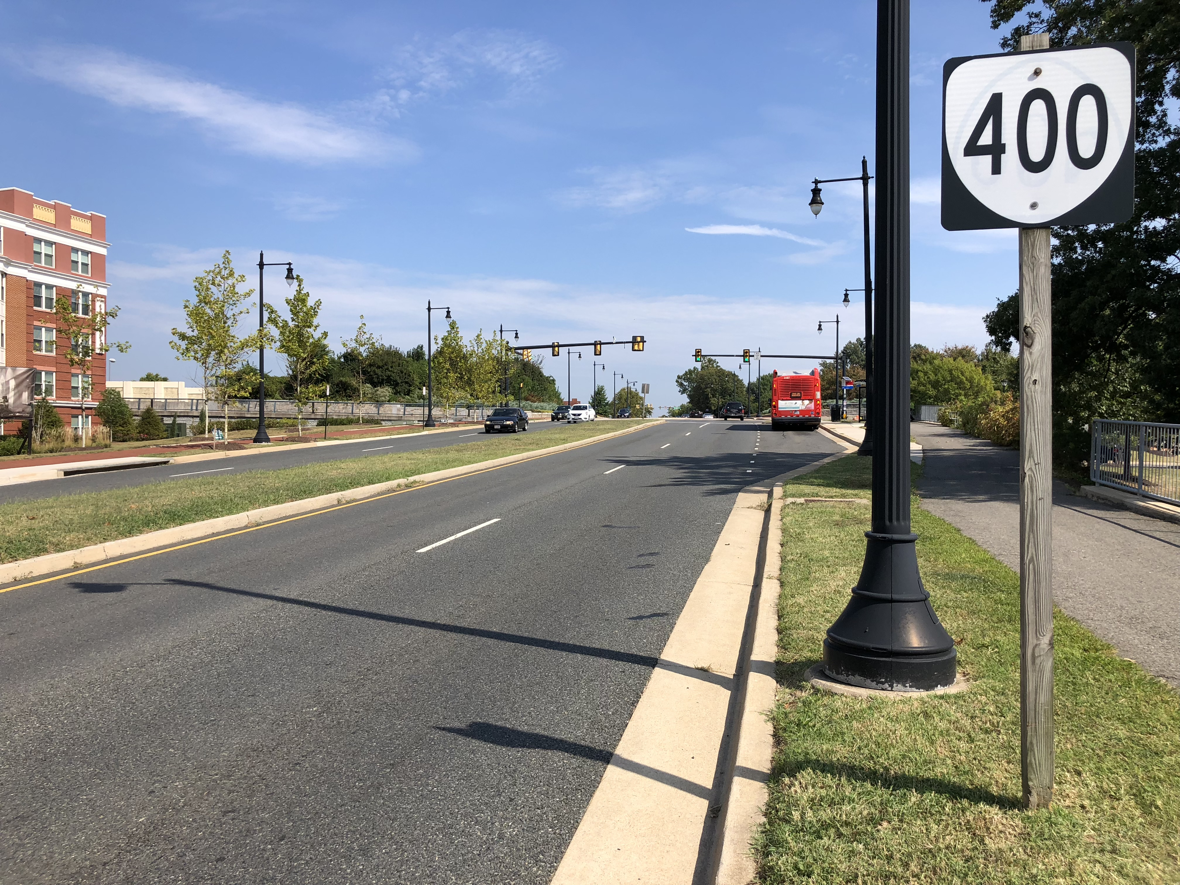 View north along Virginia State Route 400 (Washington Street) just north of Alfred Street in Alexandria, Virginia